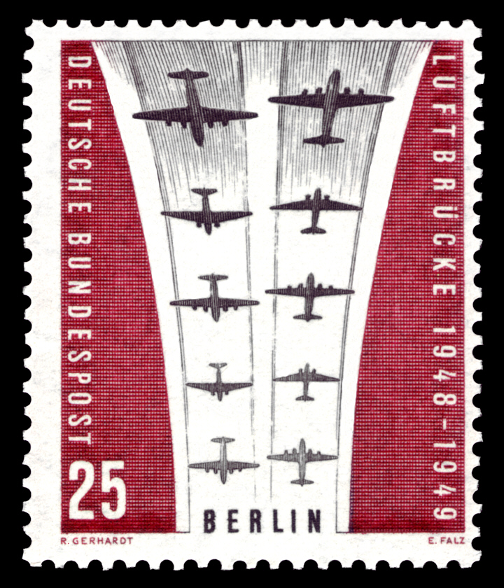 10th anniversary of the end of the Berlin Blockade and the Berlin Airlift Graphics by Gerhardt Ausgabepreis: 25 Pfennig First Day of Issue / Erstausgabetag: 12. Mai 1959 Michel-Katalog-Nr: 188 (Berlin)